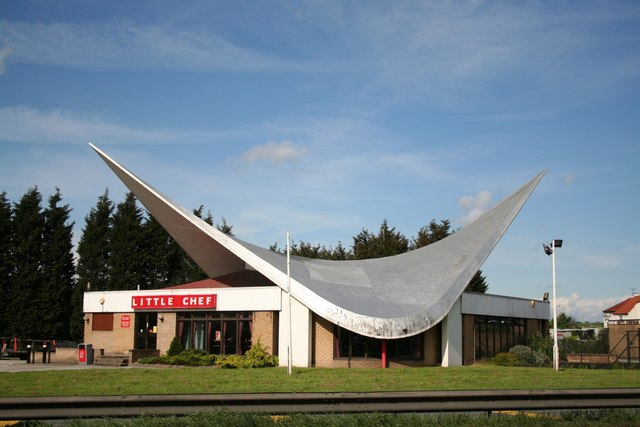 Sam Scorer, Little Chef. The Little Chef at Markham Moor in a building by Lincoln architect Sam Scorer, recently threatened with demolition to make way for road improvements - thankfully reprieved. However as of August 2012 the restaurant has been closed, but the building not demolished.